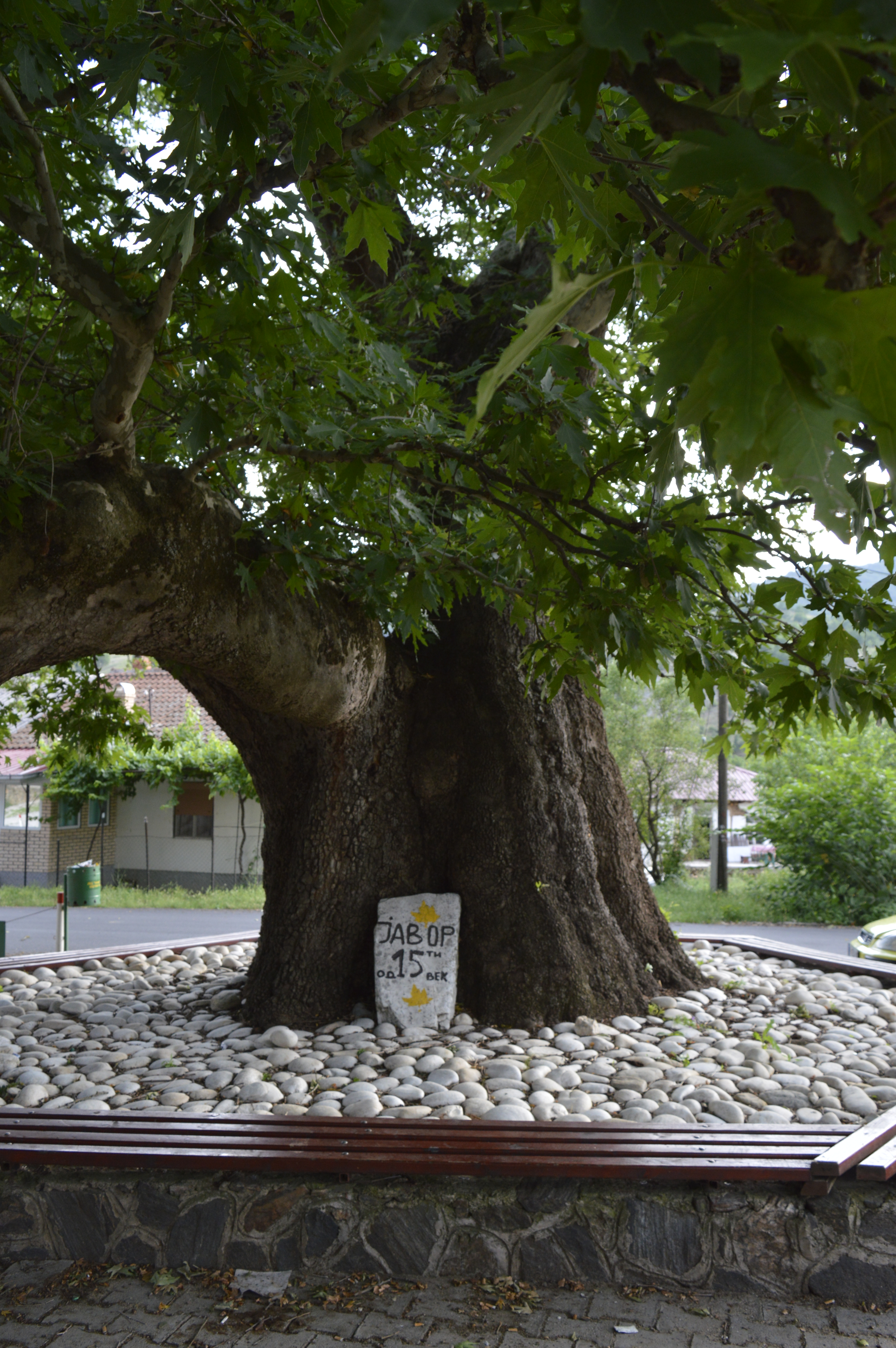 Old mapletree in the village Teovo